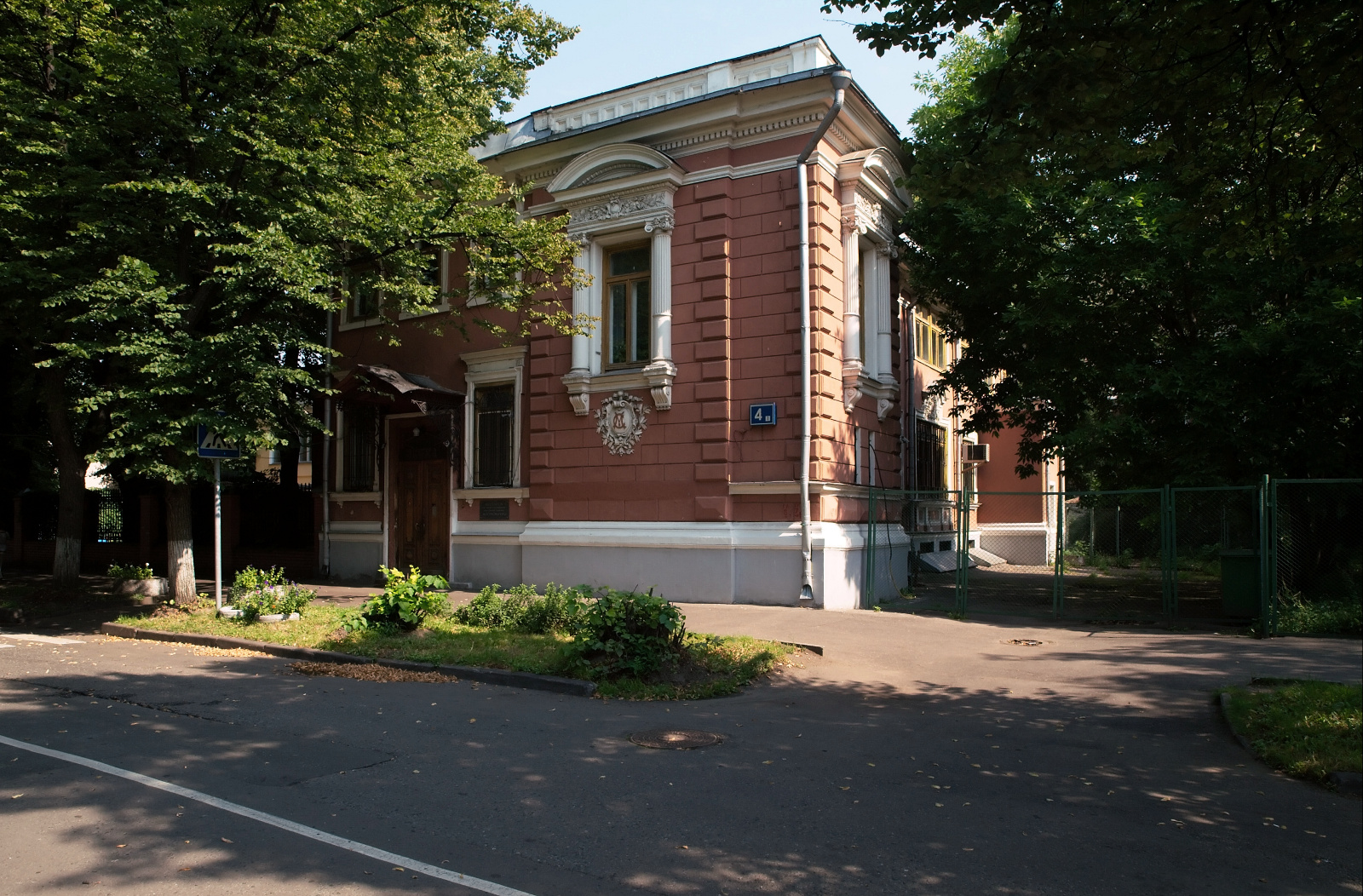 Chernyschevskogo Lane, Moscow.